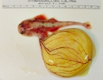 Embryo of the sand devil (Squatina dumeril)